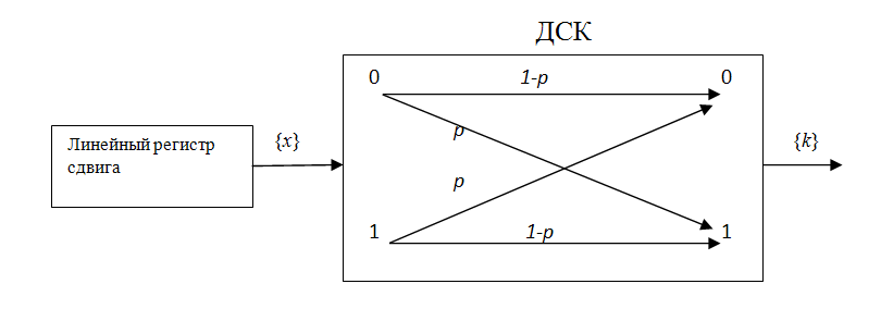 DSK